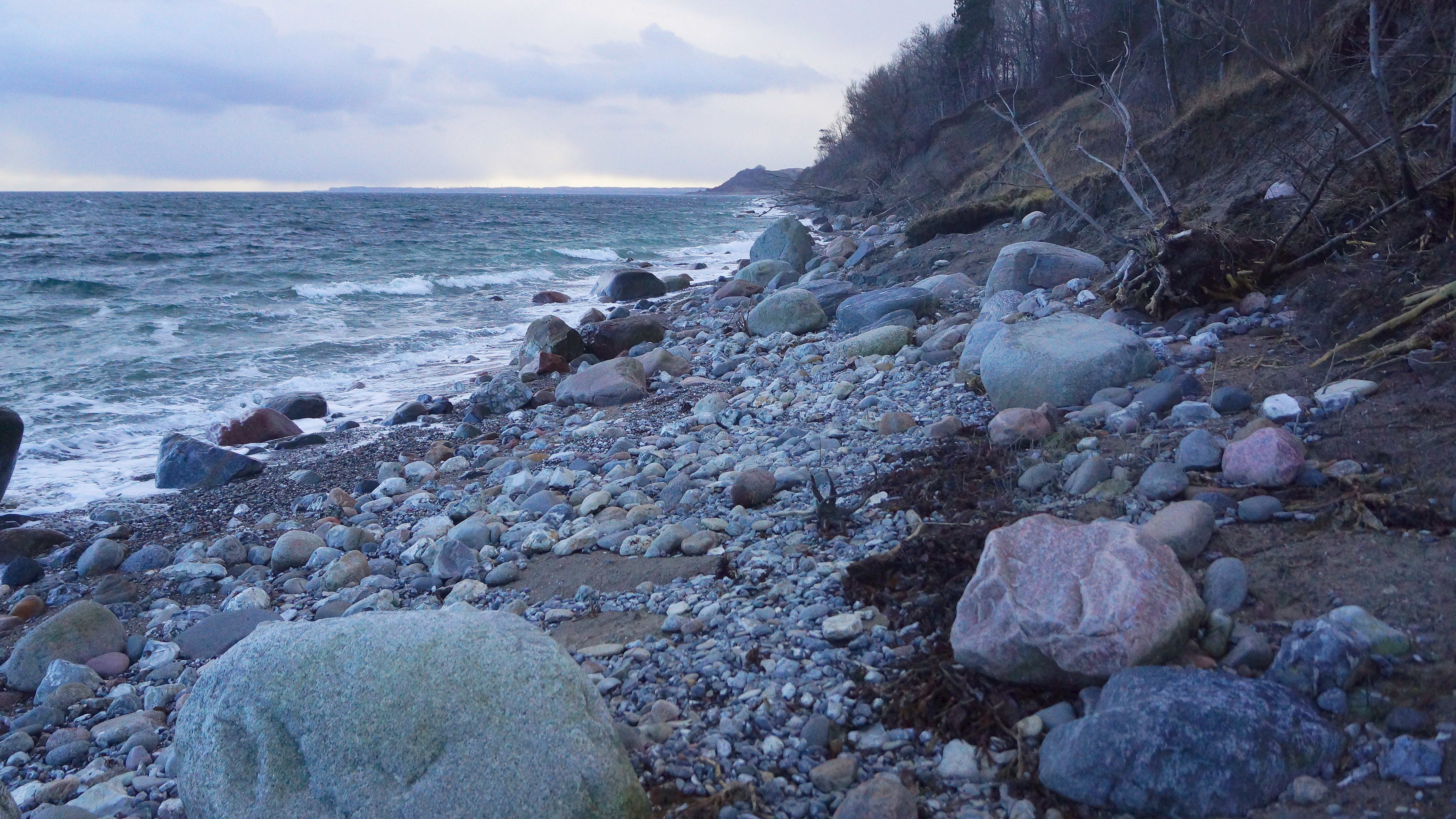 Rugård, kysten ned for Rugård Skov